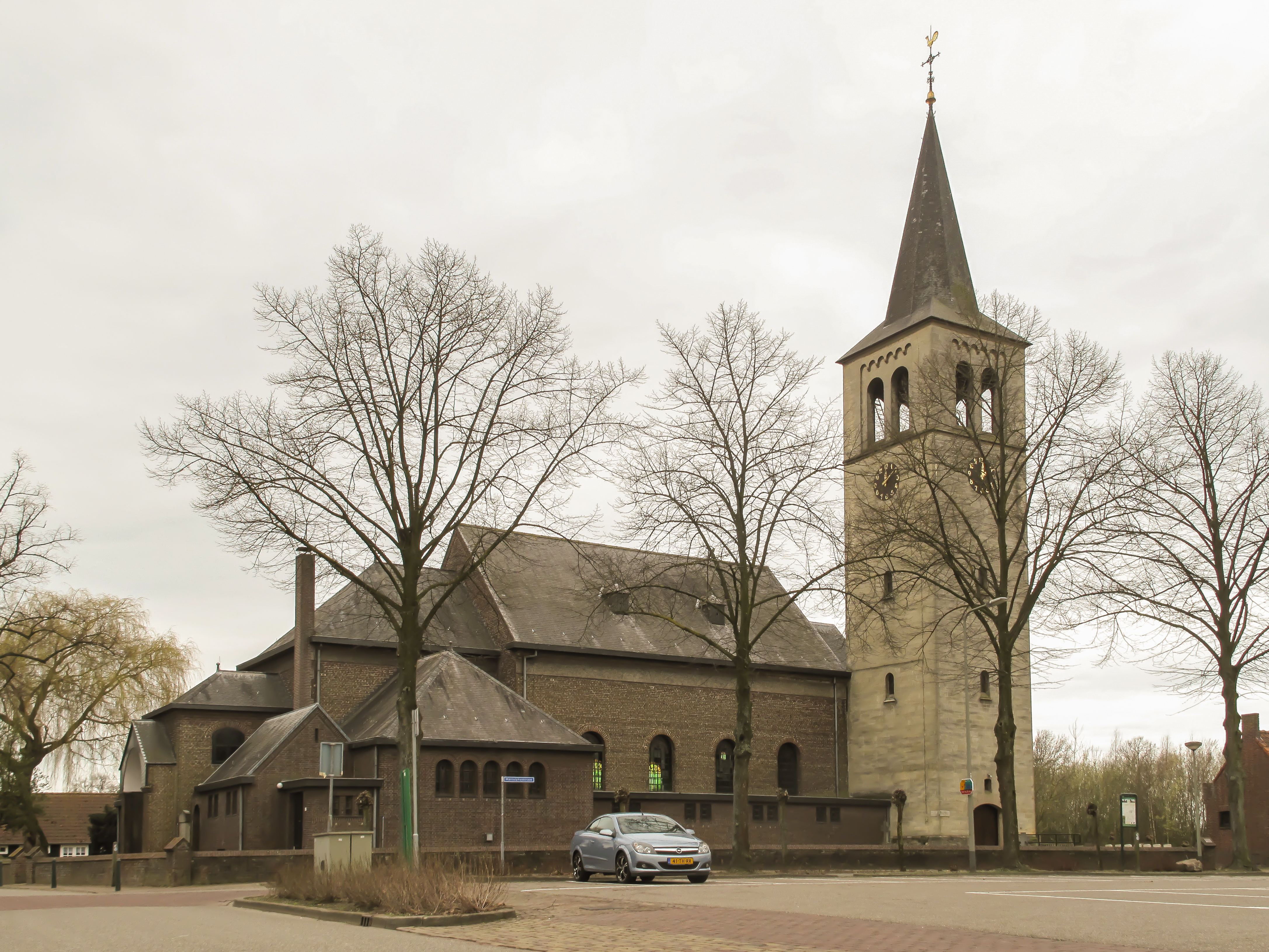 Hunsel, church: de Sint Jacobuskerk